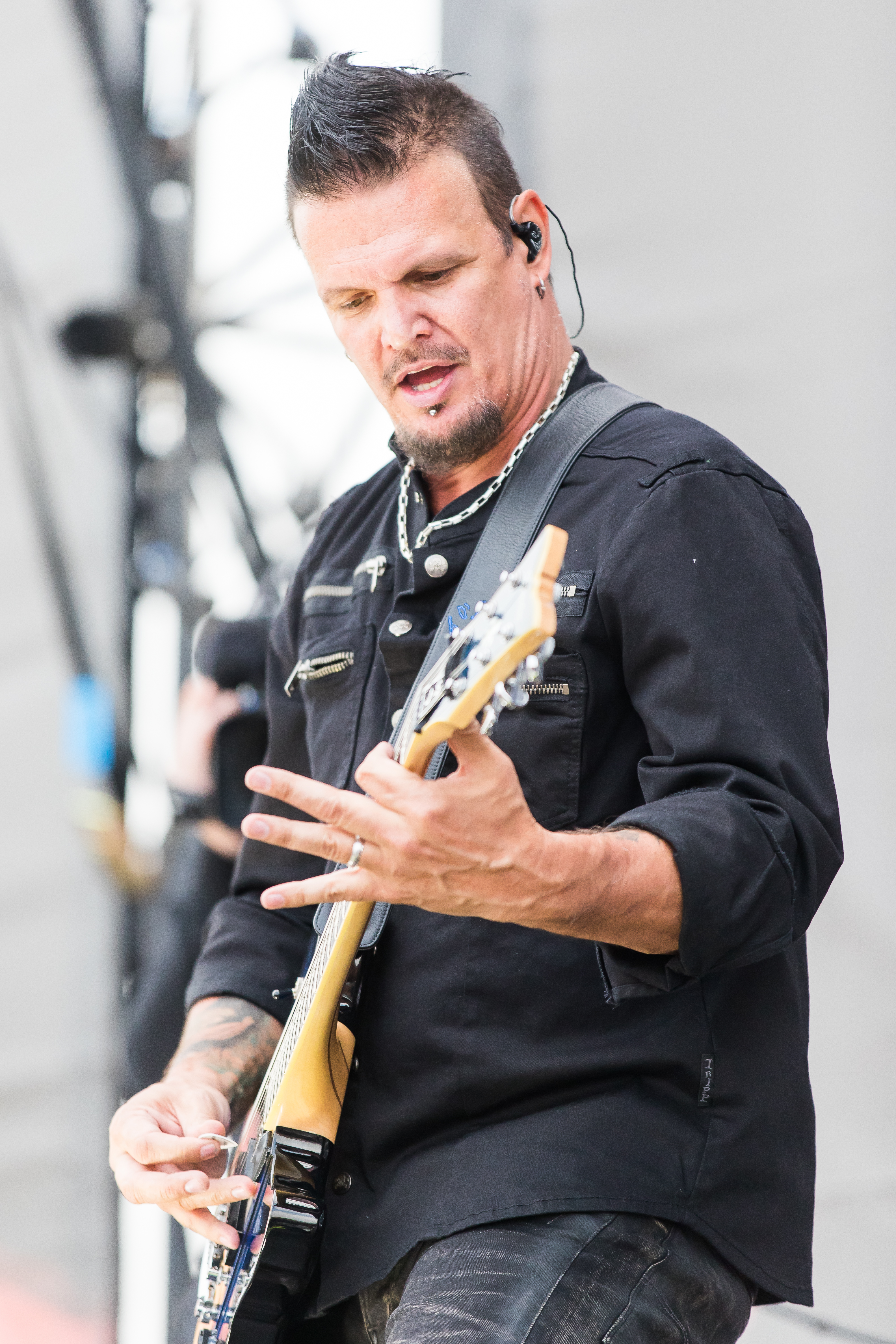 Disturbed at Rock am Ring 2016